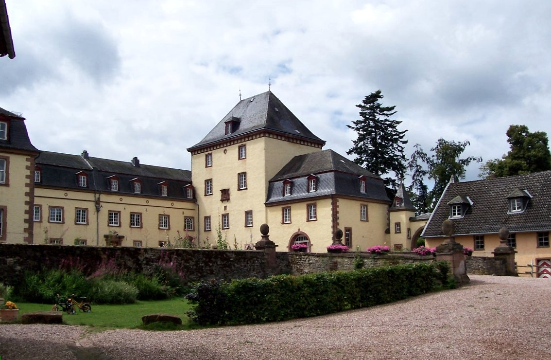 tower house of Schmidtheim (Dahlem) castle